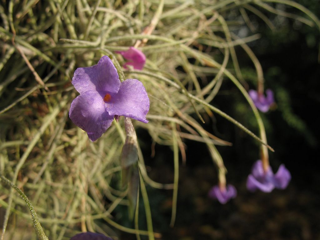 Tillandsia mallemontii in cultivation at the Botanical Garden of Heidelberg, Germany.